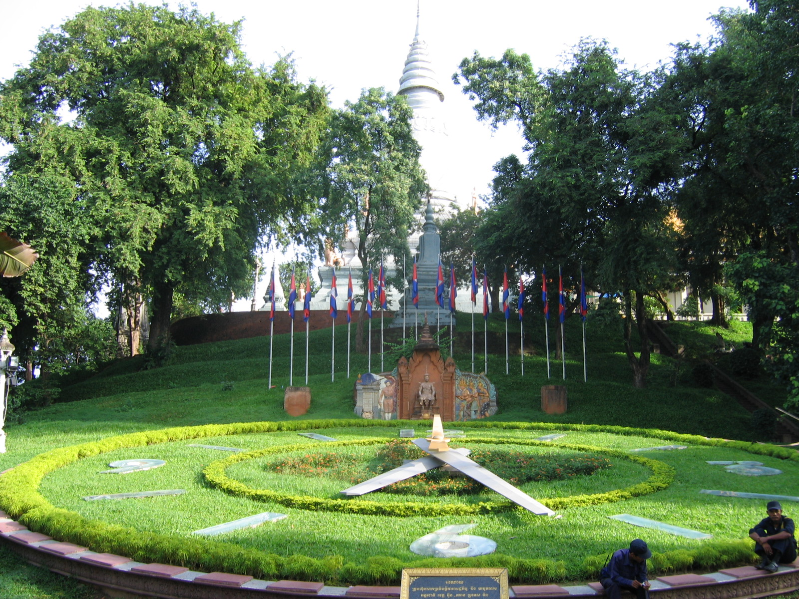 The clock